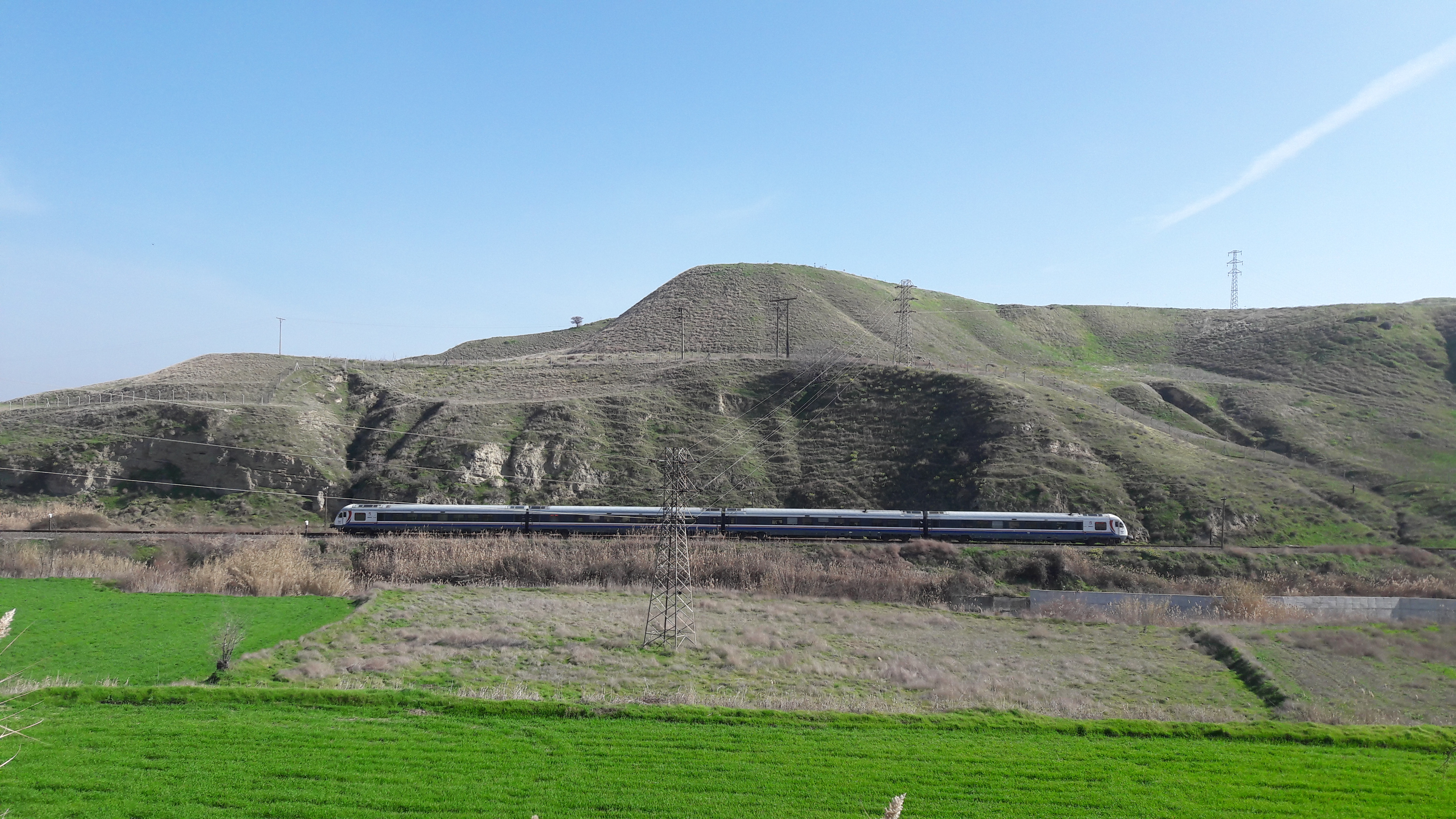 A westbound regional train to Izmir, near Denizli.